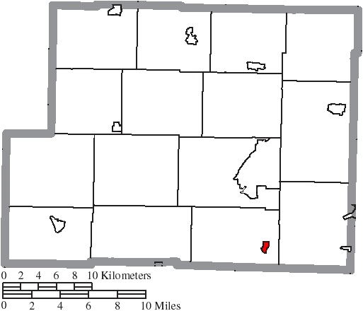 Map of the municipal and township boundaries of Harrison County, Ohio, United States, as of the 2000 census, with the location of the village of New Athens highlighted. Township borders are shown only in unincorporated areas in order to differentiate incorporated and unincorporated areas more clearly.